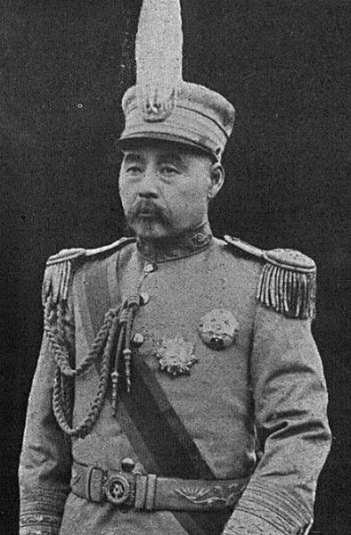 from [1]